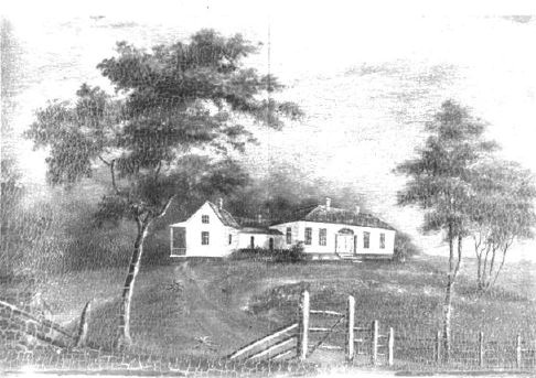 The White Cottage, birthplace of Stephen Foster